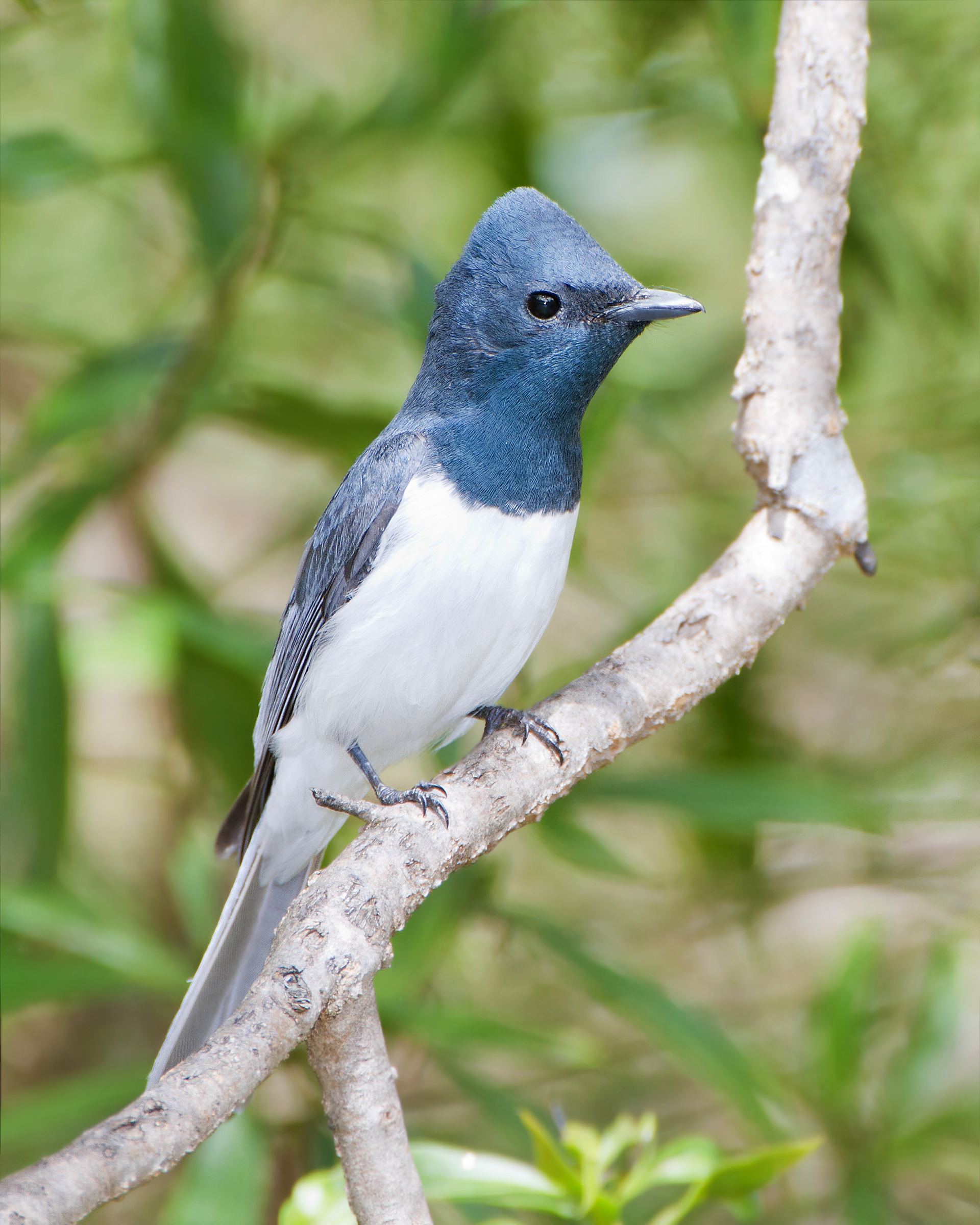 Leaden Flycatcher (Myiagra rubecula), Australian National Botanic Gardens, Canberra, Australia